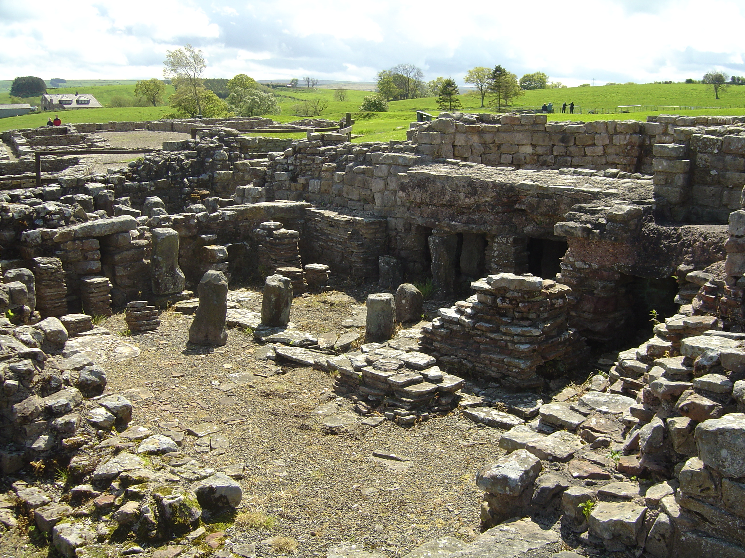 Military bathhouse at Vindolanda